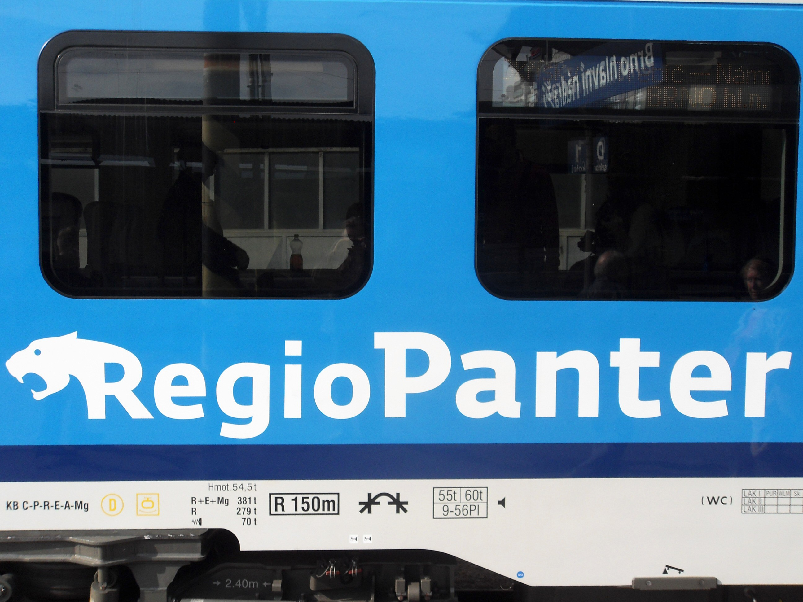 Railway day 2012 - 650.001 electric multiple unit of České dráhy, Brno main station, Czech Republic - Google Maps - Google Earth